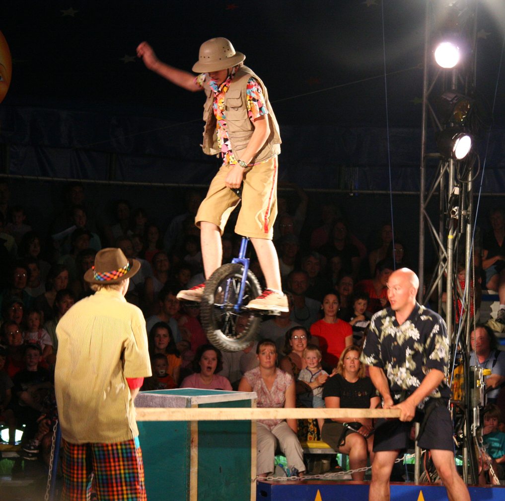 Taylor Wright-Sanson Gaps the unicycle off of the Russian Bar Performing with Circus Smirkus.